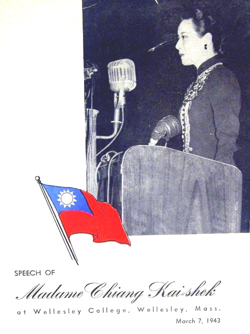 1943 Wellesley College poster for Soong May-ling speech.